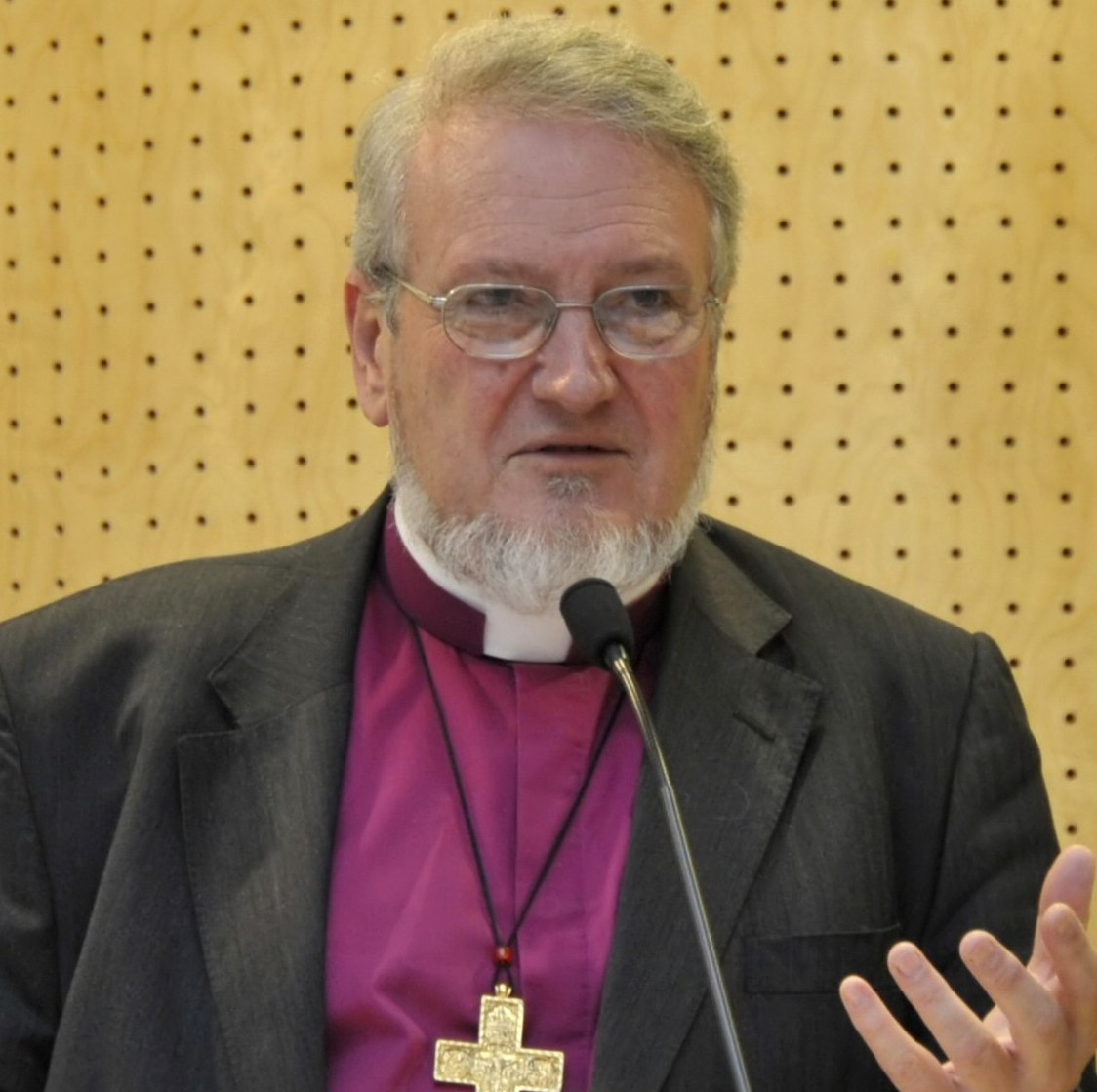 The Right Revd Geoffrey Rowell, Bishop in Europe is giving a lecture at the The Revd Professor Carsten Peter Thiede in memoriam symposium at the Stefanisaal of the Churhaus, Stephansplatz 3, Wien 1, Austria.